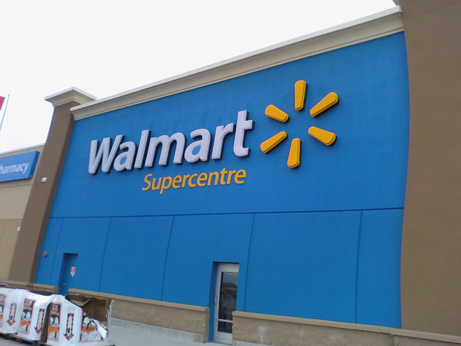 Remodelled Walmart Supercentre in Brockville, Ontario